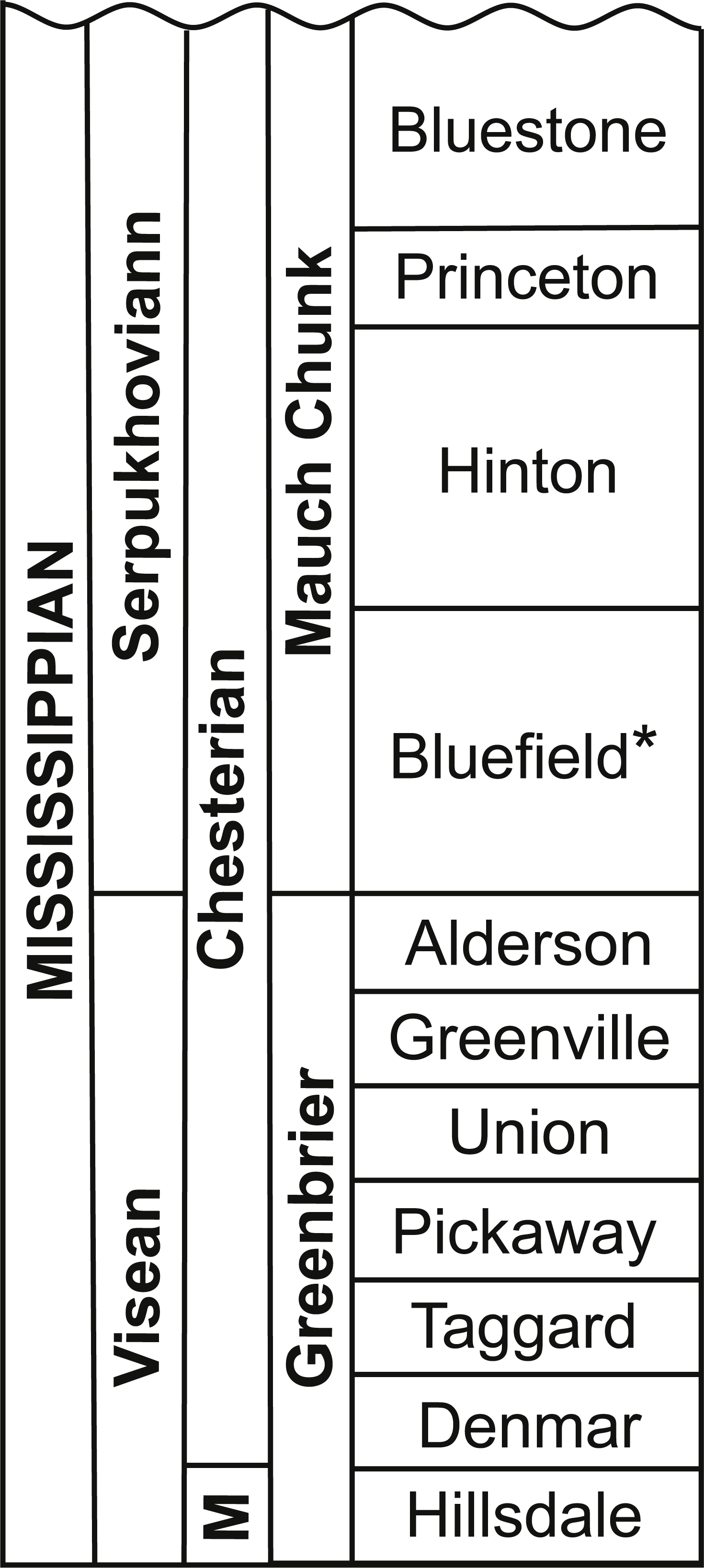 A new lower actinopterygian fish from the Upper Mississippian Bluefield Formation of West Virginia USA